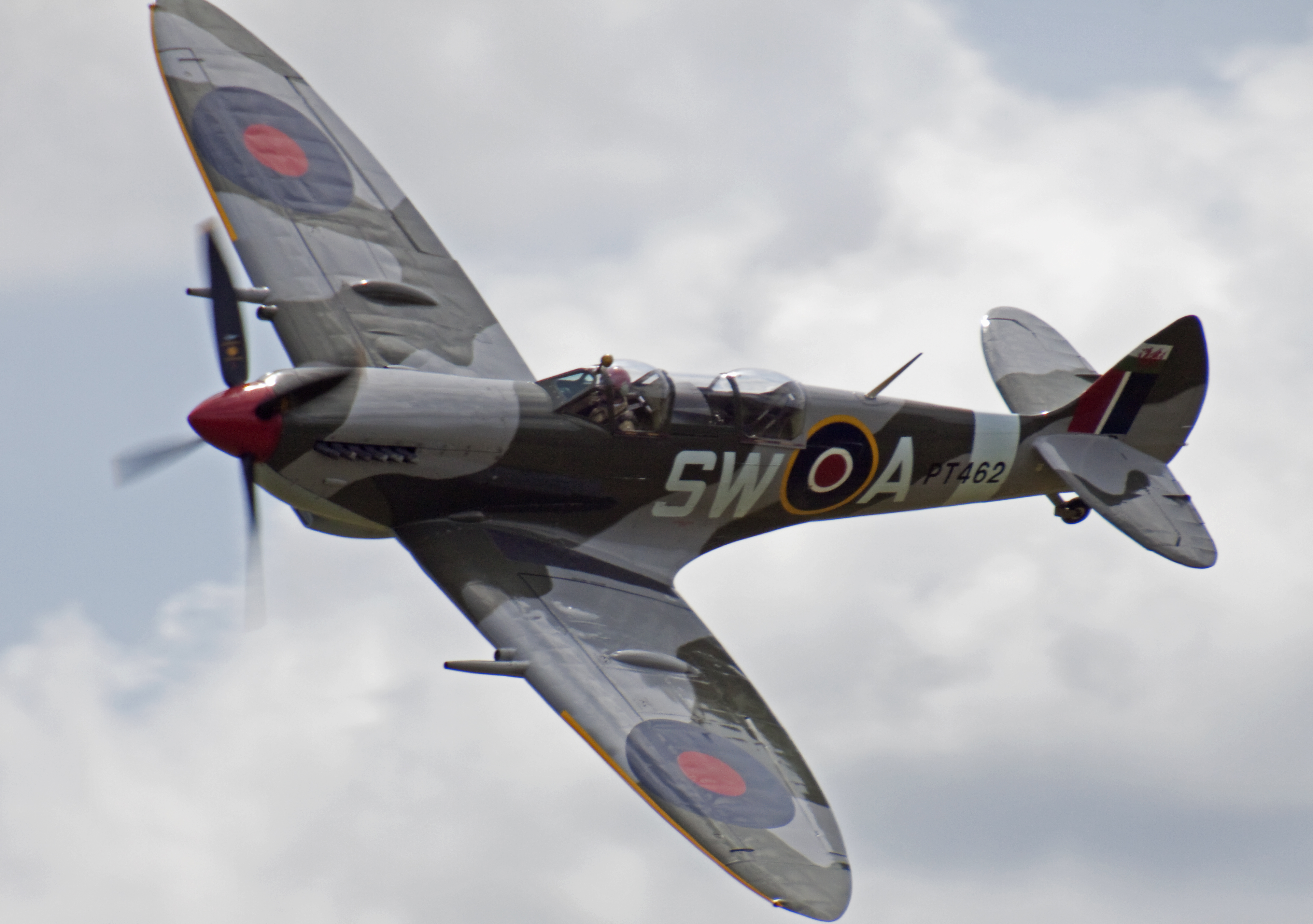 A two seater version of a MkIX spitfire